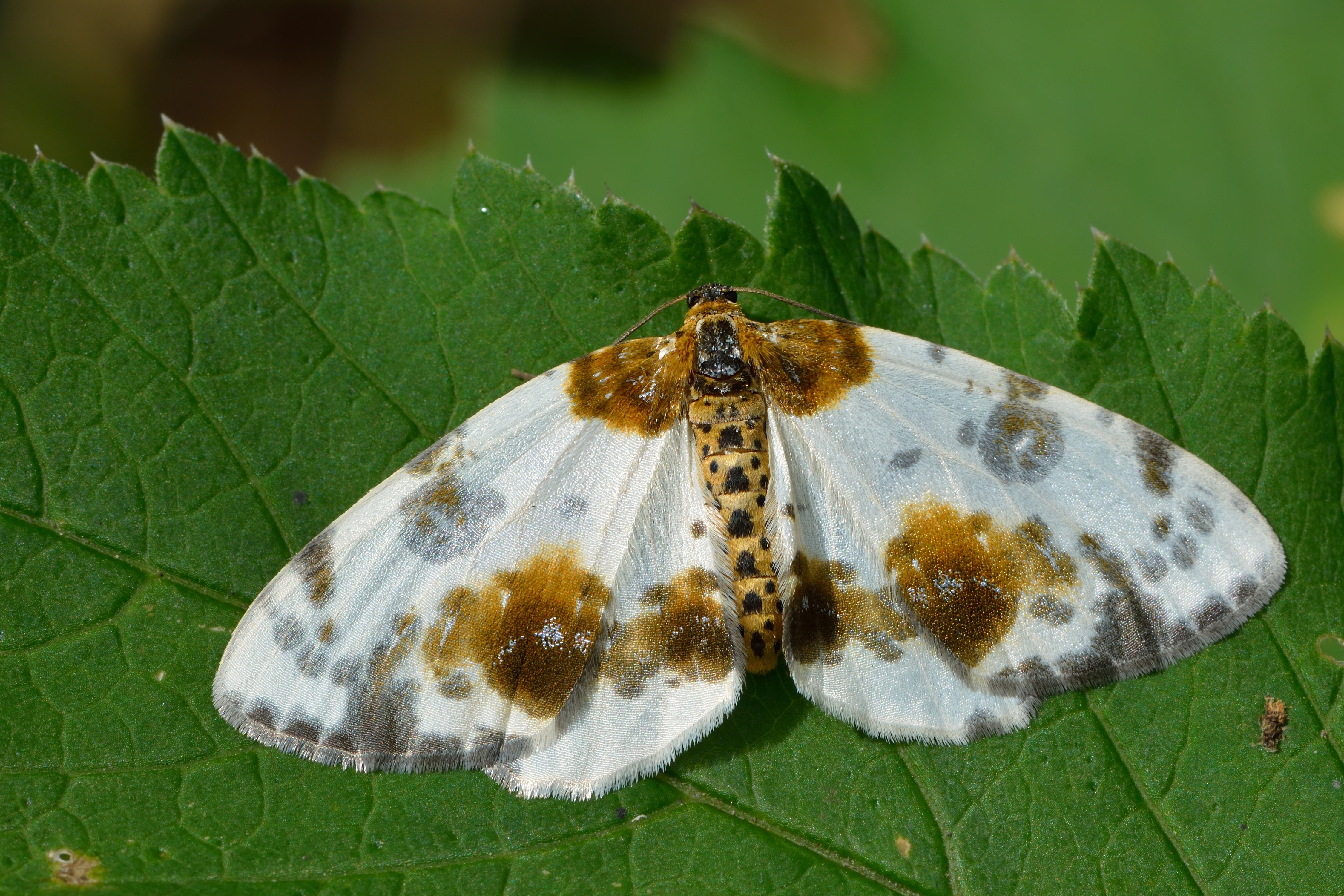 The Clouded Magpie (Abraxas sylvata), Northwestern Estonia.